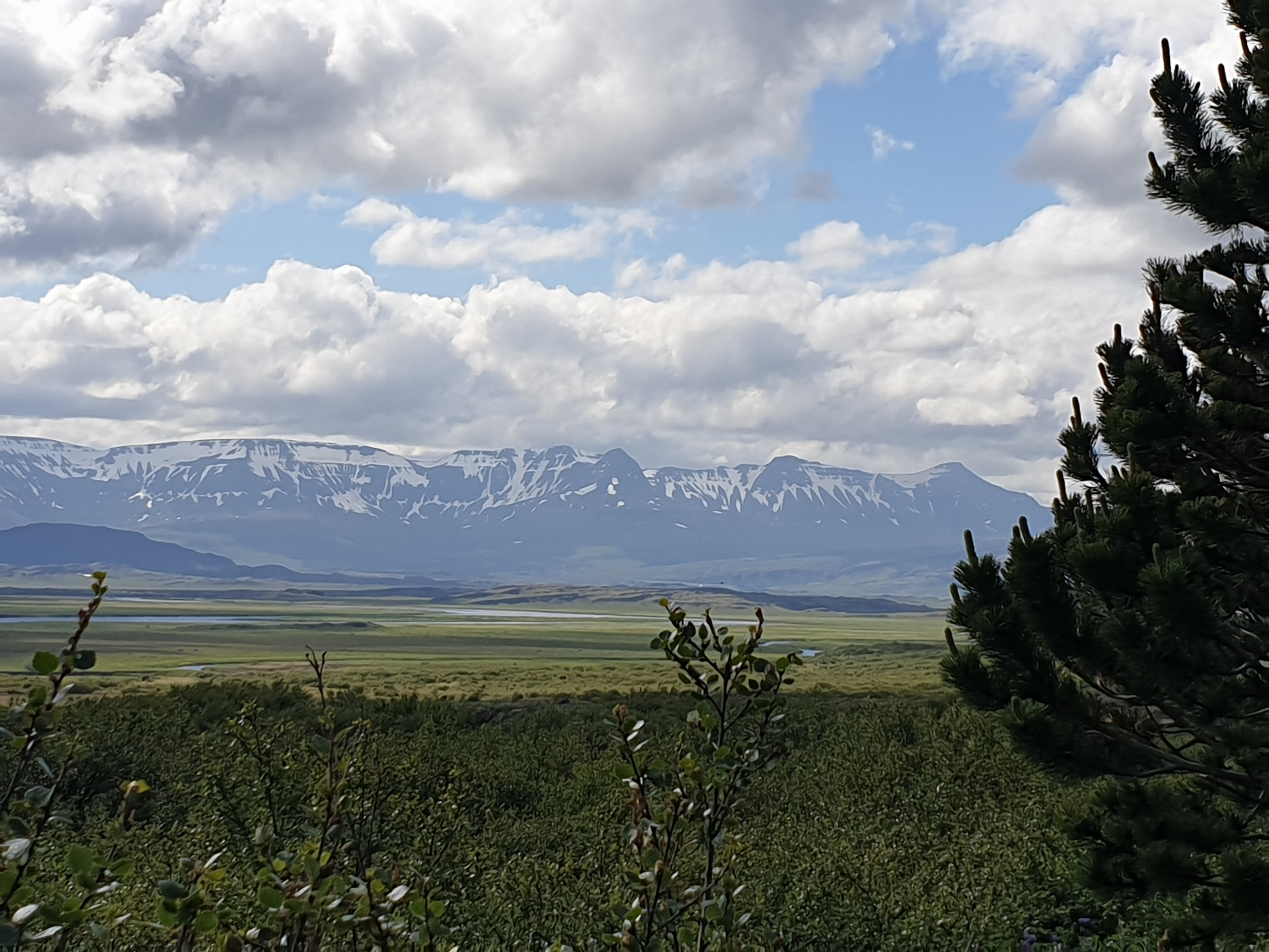 Skarðsheiði from Daníelslundur